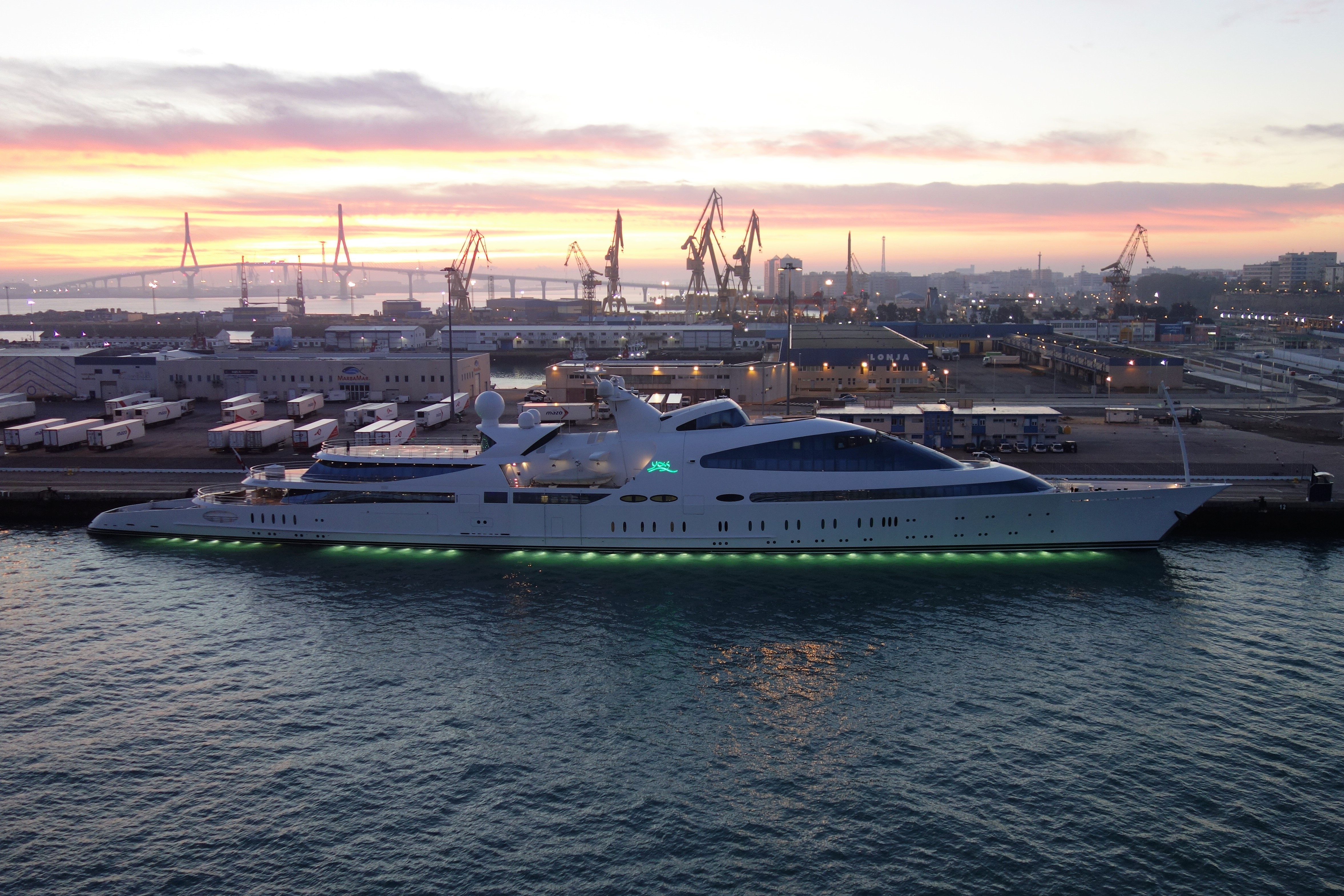 Luxury yacht Yas moored in Cádiz harbour